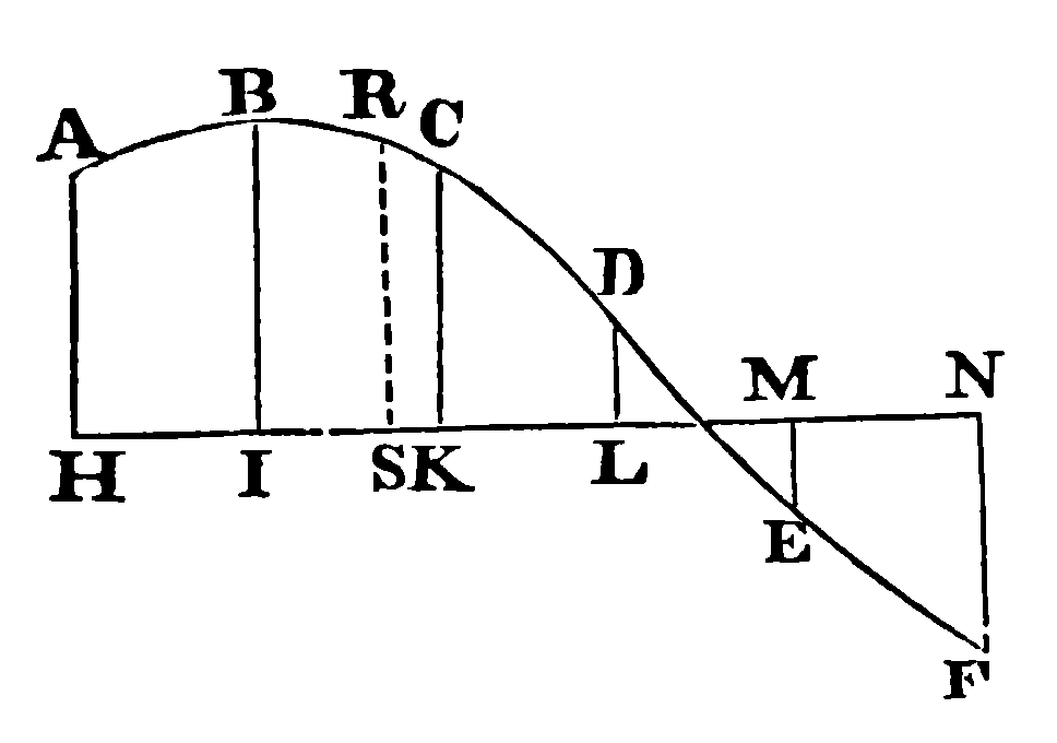 PrincipiaGraph